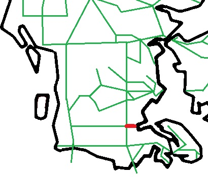 Map of railways in Southern Jutland in Denmark with the state railway Aabenraabanen in red.